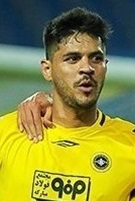 Kiros Stanlley Soares Ferraz